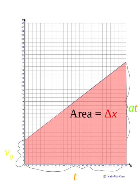 A Velocity-time graph for physics